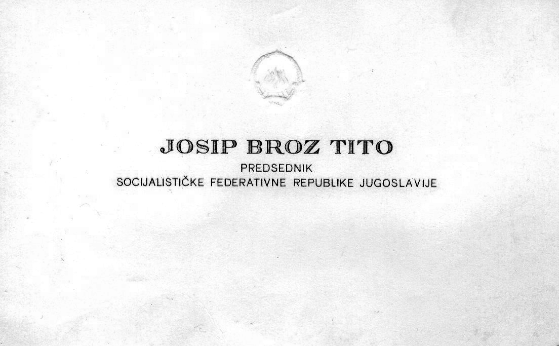 Calling Card of Josip Broz Tito (1967)